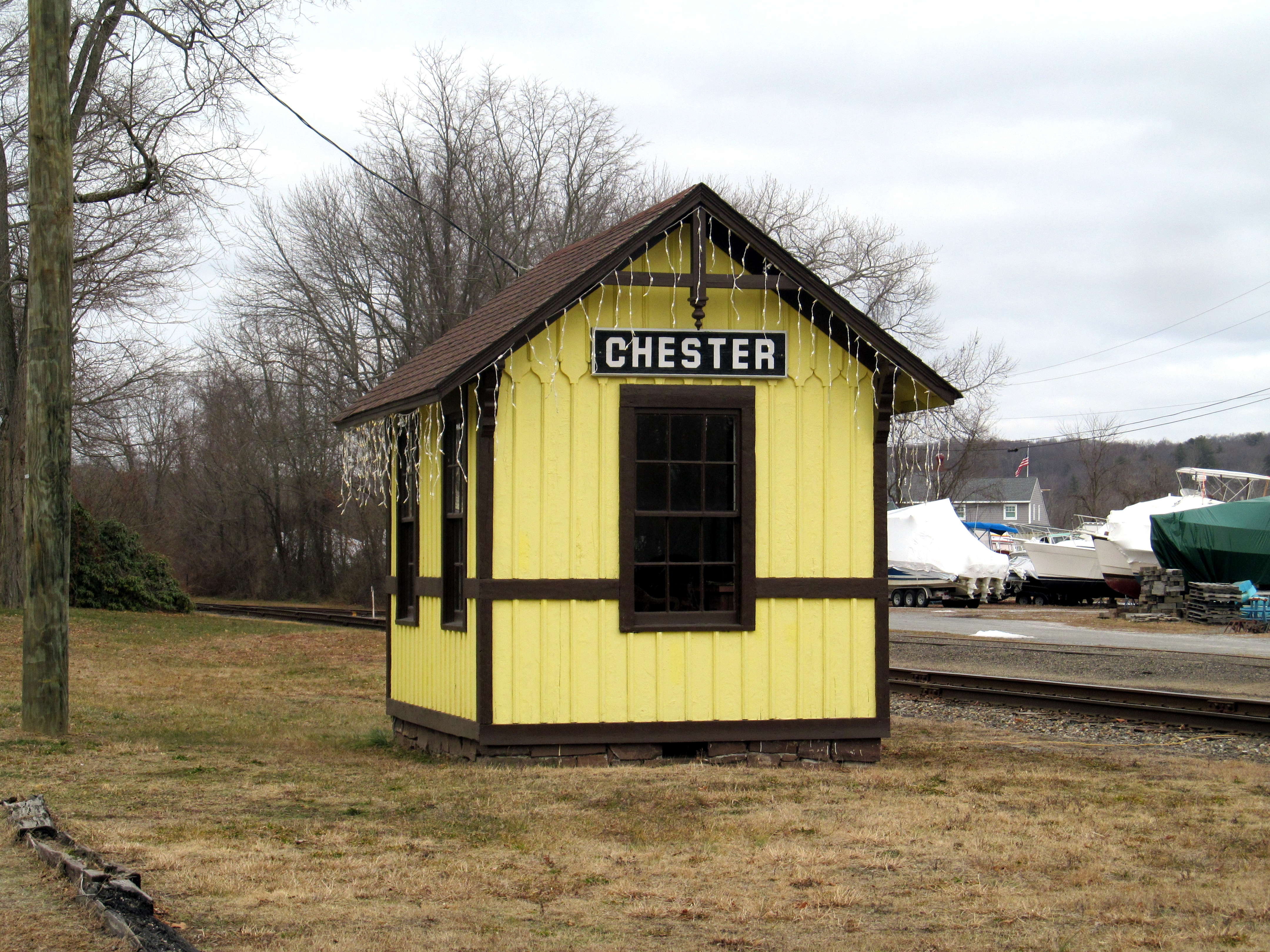 The former Quinnipiack station (originally on the New Haven - Springfield Line) on the Valley Railroad, where it is used as the Chester station, in December 2016